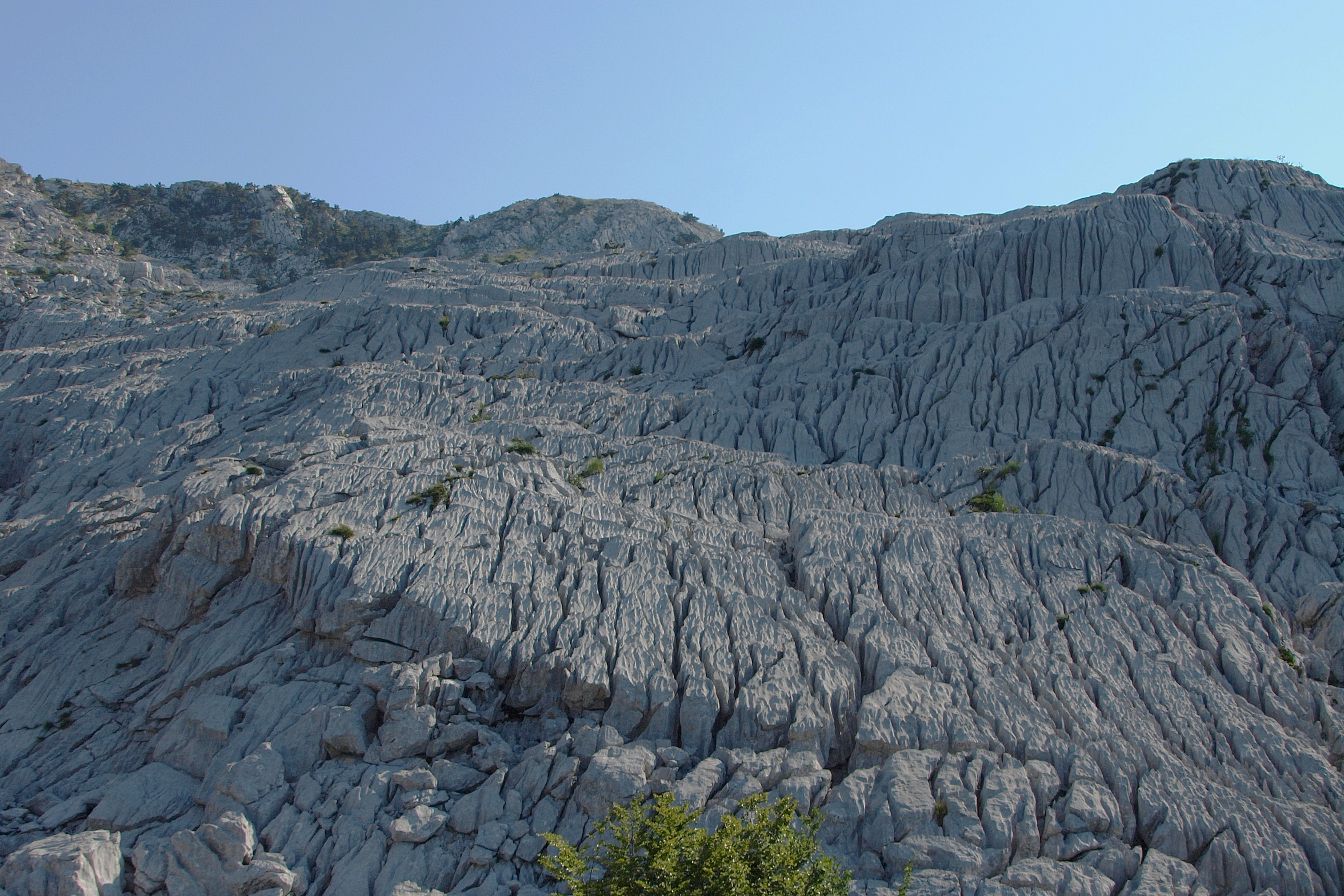 Schichttreppe Kluftkarren Orjen